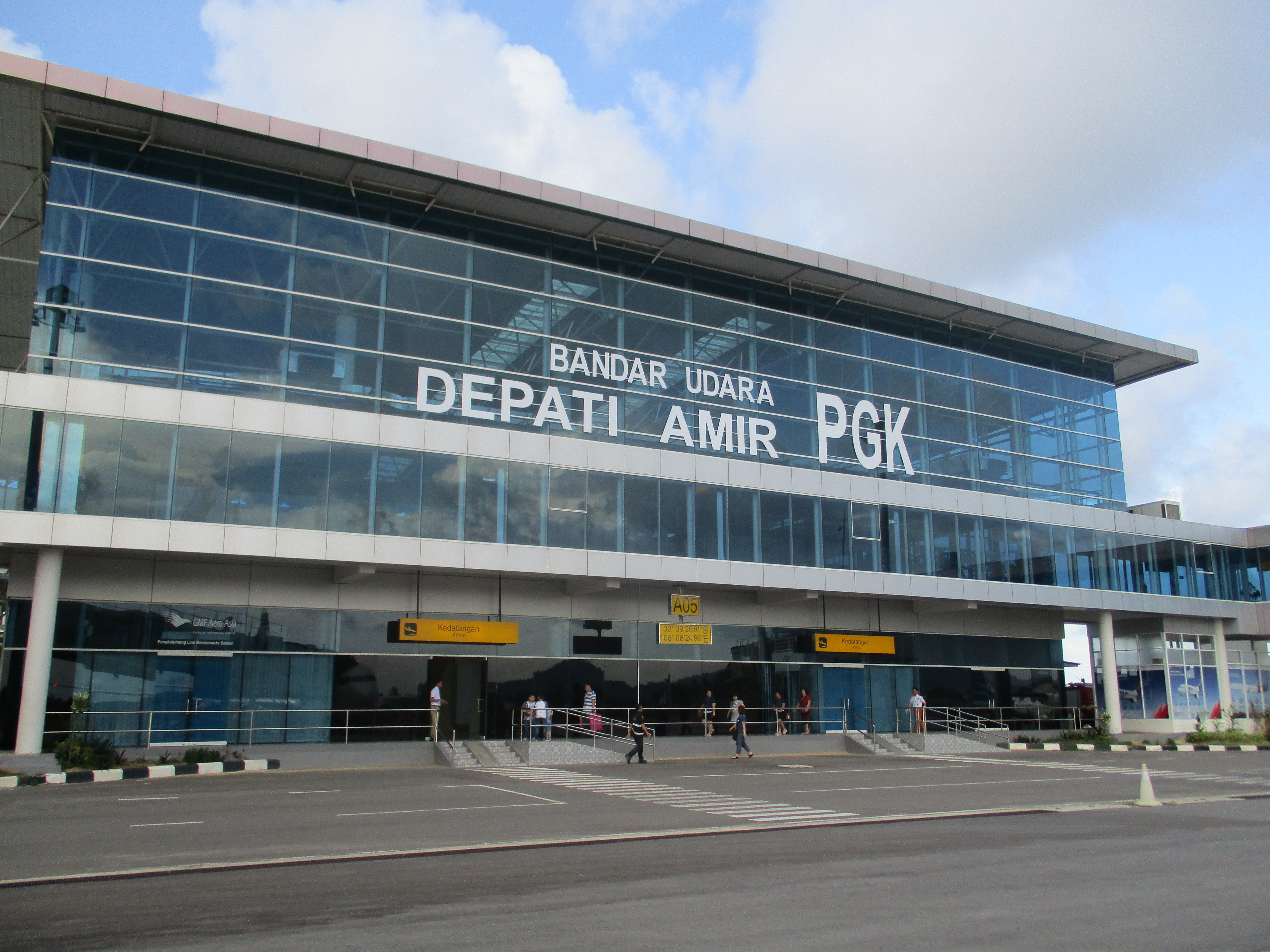 New Depati Amir Airport in Pangkalpinang, Bangka Island.